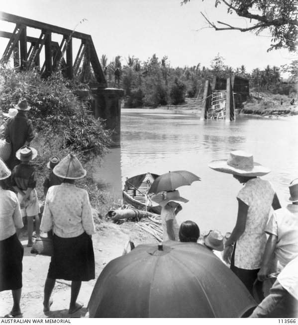 THE WRECKED NORTHERN AND CENTRE SECTIONS OF THE RAILWAY BRIDGE OVER THE PAPAR RIVER ON THE BEAUFORT-JESSELTON RAILWAY.